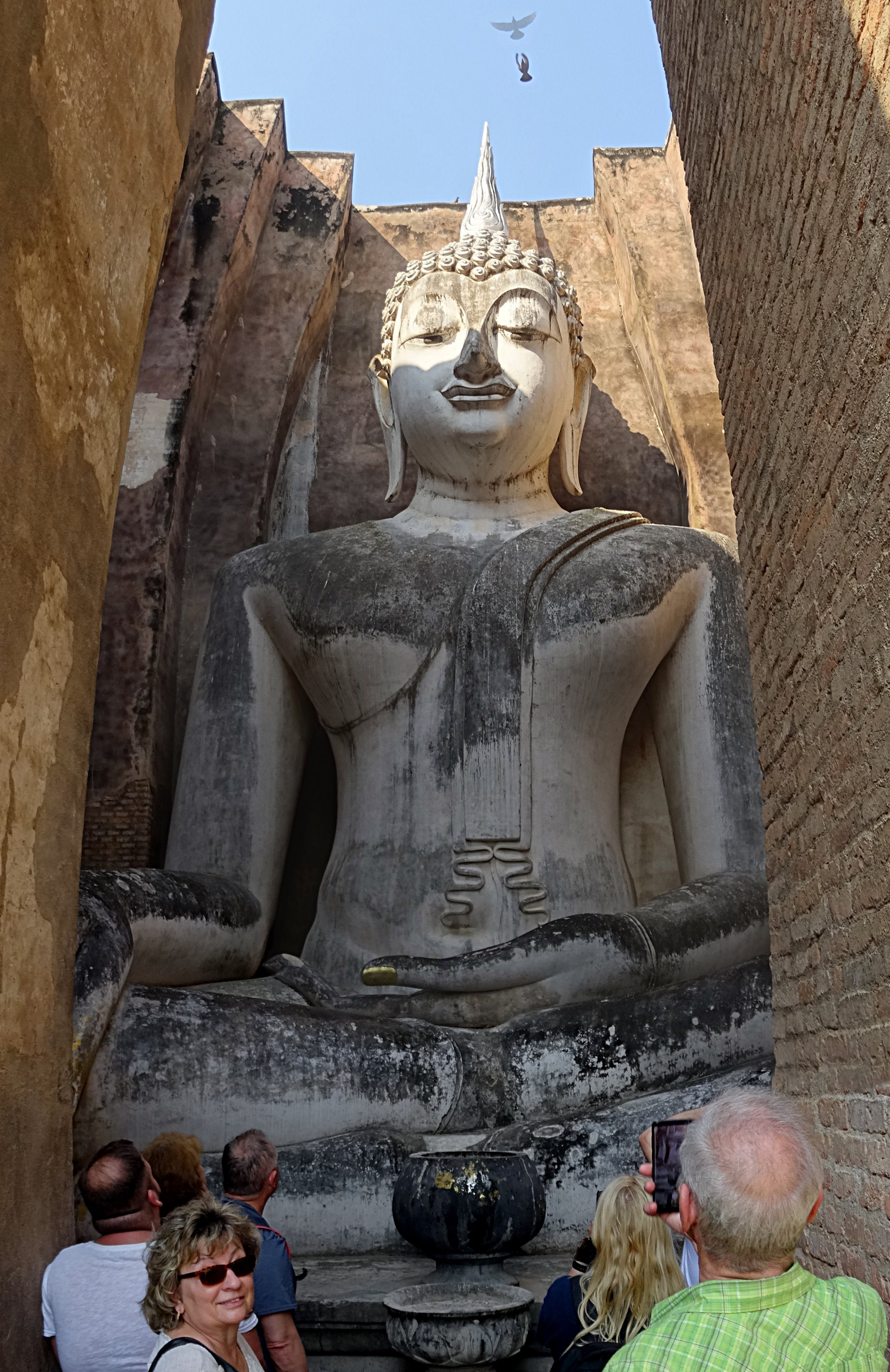 Phra Achana, the main Buddha statue in Sukhothai historical park